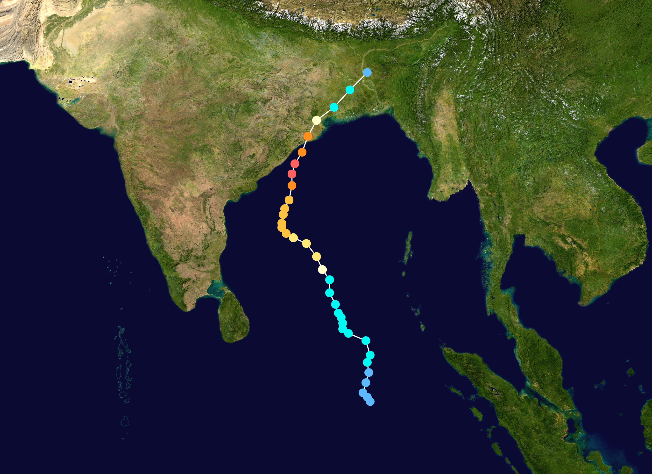 Track map of Extremely Severe Cyclonic Storm Fani of the 2019 North Indian Ocean cyclone season. The points show the location of the storm at 6-hour intervals. The colour represents the storm's maximum sustained wind speeds as classified in the Saffir–Simpson scale (see below), and the shape of the data points represent the nature of the storm, according to the legend below. Saffir–Simpson scale Tropical depression≤38 mph≤62 km/h Category 3111–129 mph178–208 km/h Tropical storm39–73 mph63–118 km/h Category 4130–156 mph209–251 km/h Category 174–95 mph119–153 km/h Category 5≥157 mph≥252 km/h Category 296–110 mph154–177 km/h Unknown Storm type Tropical cyclone Subtropical cyclone Extratropical cyclone / Remnant low / Tropical disturbance